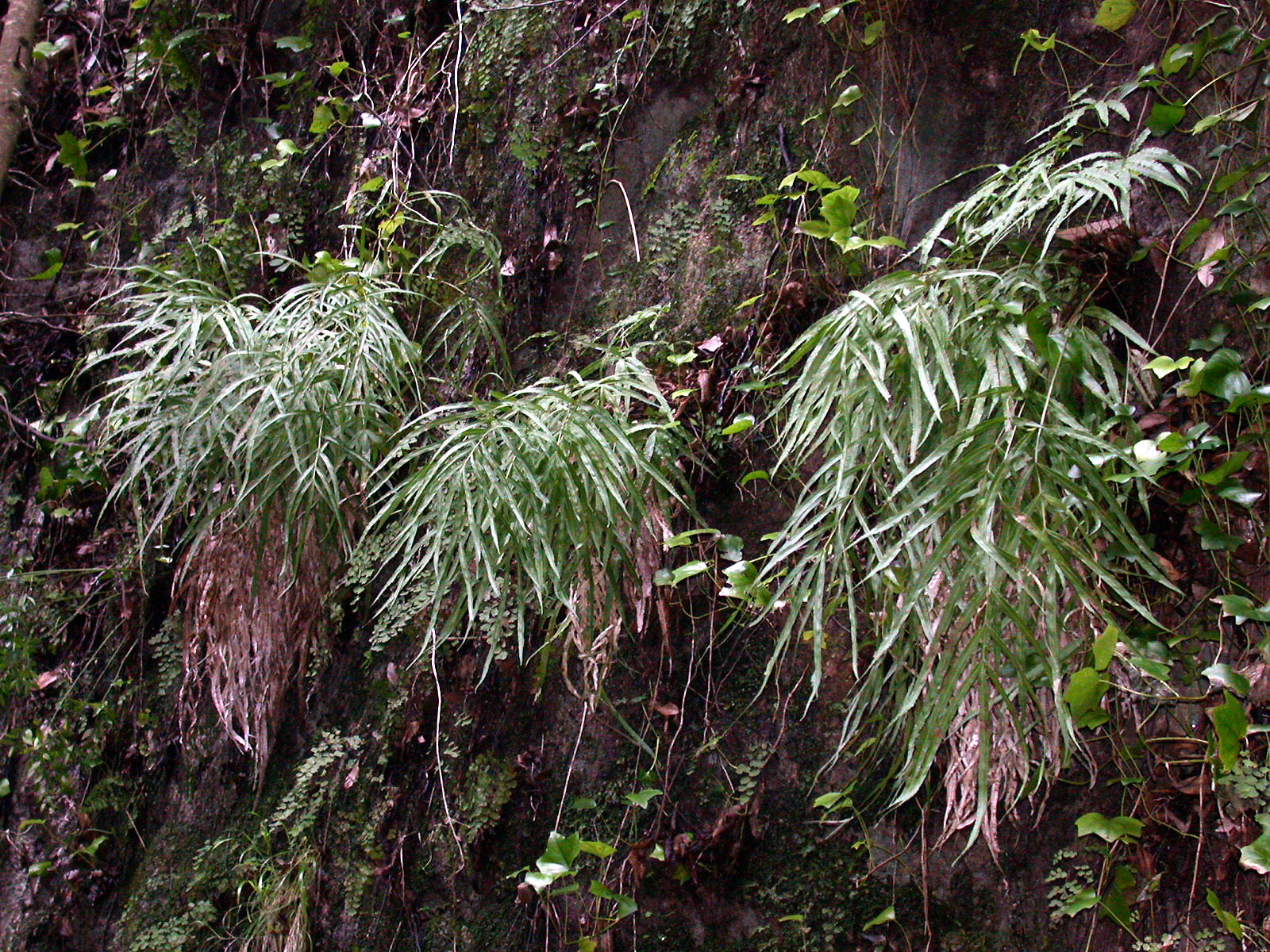 Pteris cretica